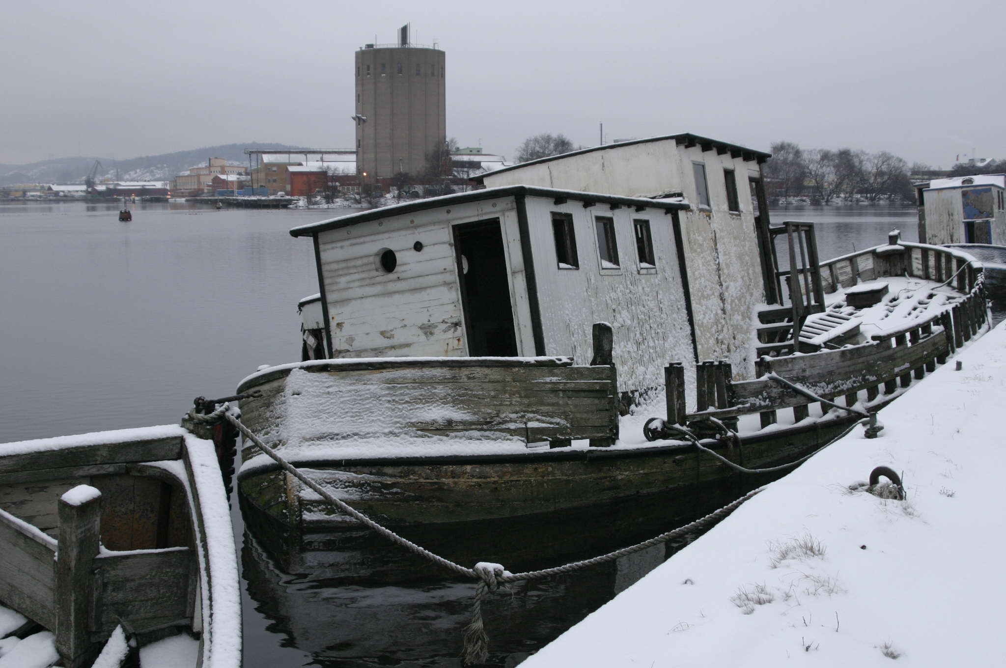 A run down ship in Gullbergsvass, Gothenburg, Sweden